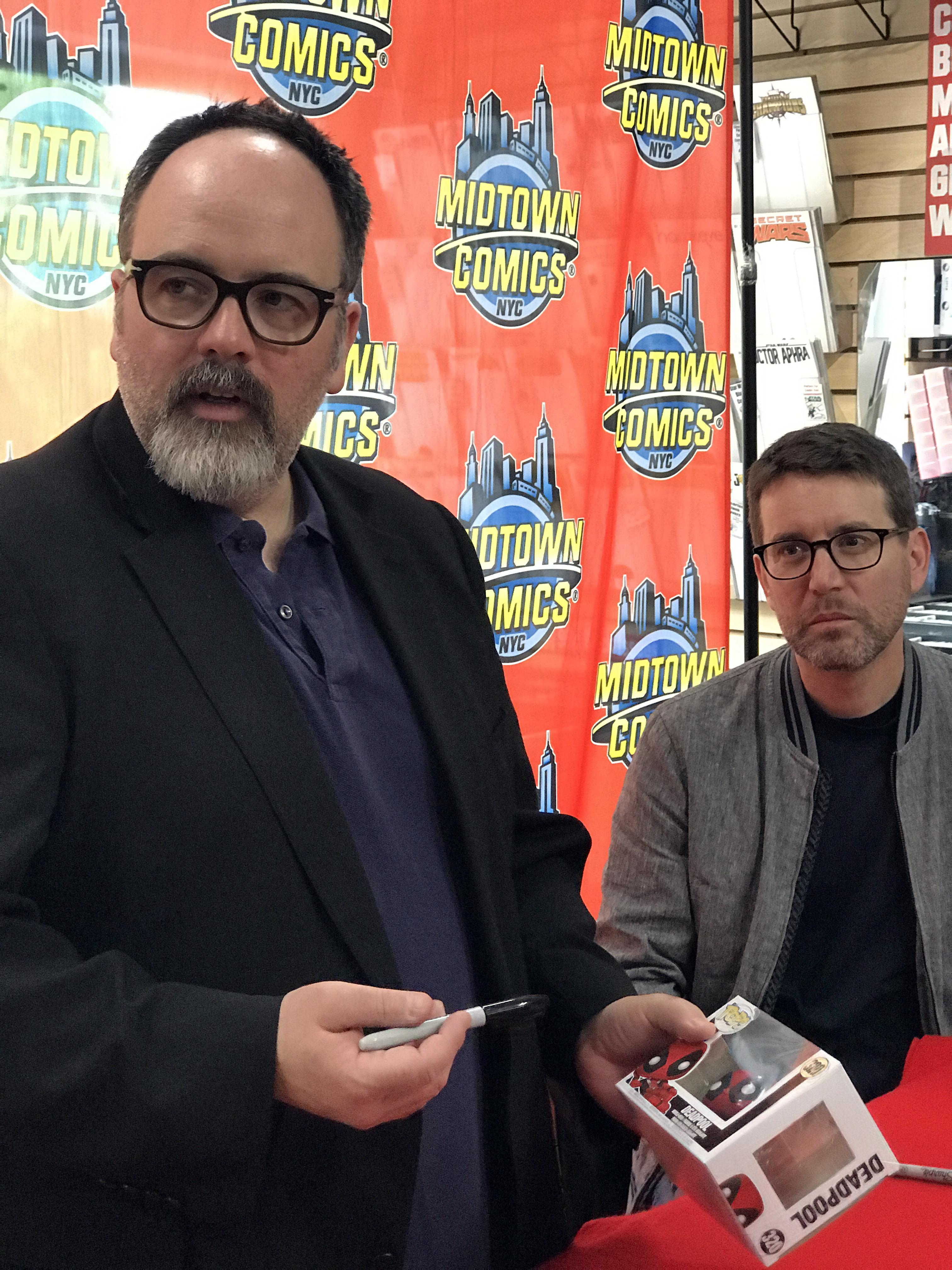 Left to right: Comics writer Gerry Duggan and film and television producer/screenwriter Rhett Reese, who co-wrote the feature films based on the comics character Deadpool, at a signing for the comic book Deadpool #300 at Midtown Comics Downtown in Manhattan, held on May 12, 2018, a week before the release of Deadpool 2. This photo was created by Luigi Novi. It is not in the public domain, and use of this file outside of the licensing terms is a copyright violation.